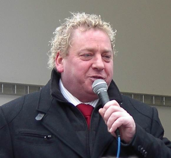 Karl-Heinz Suenkenberg at event in Wilhelmshaven.